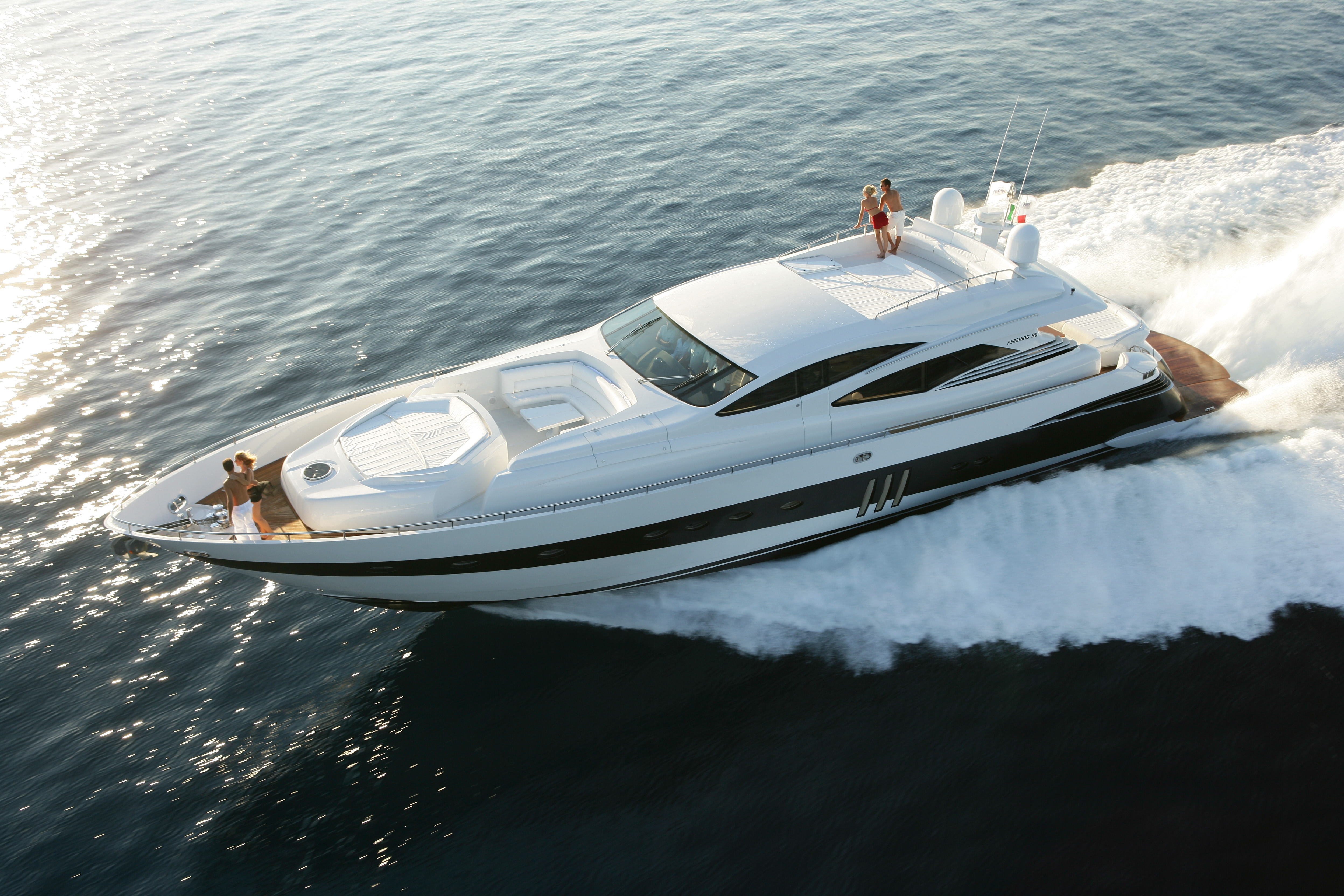 Pershing 90